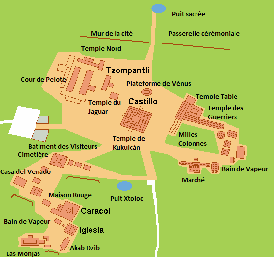 Map (rough) of Chichen Itza, Mexico, own work composed from various mapreferences